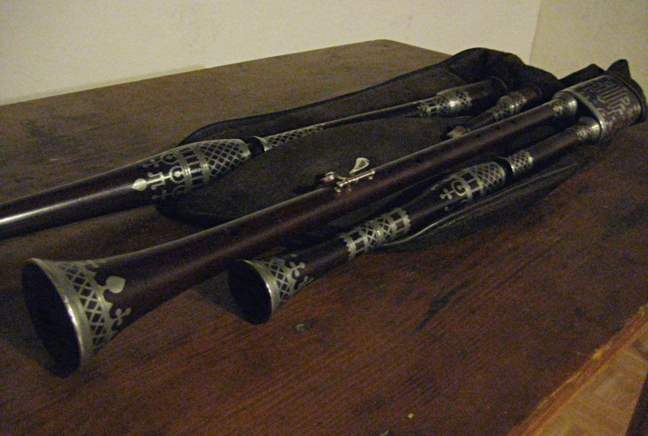 Tin inlaid cornemuse du centre (central french bagpipe) 23p, in low-C, replica of an ancient instrument